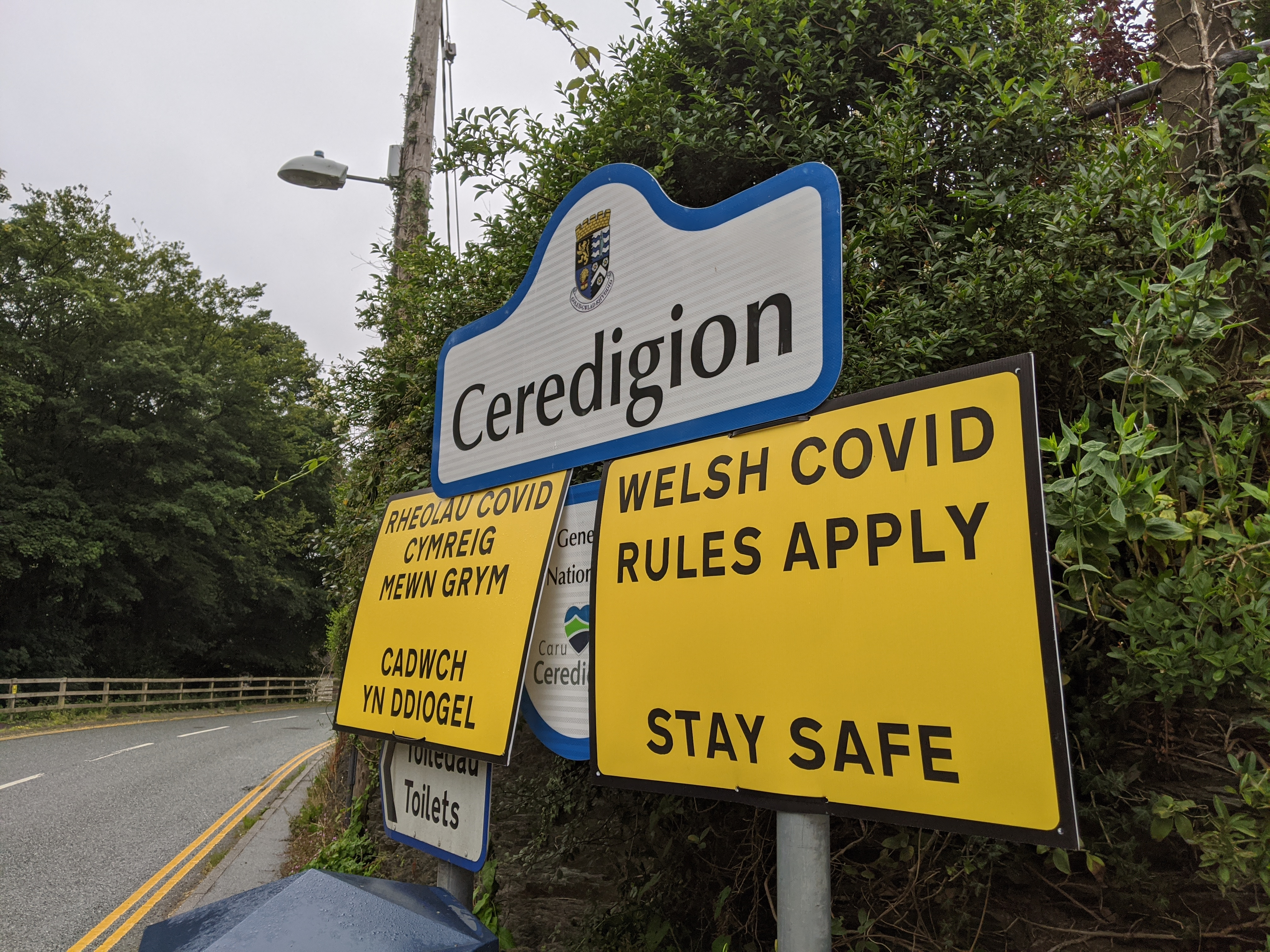 With evidence of English people coming to Wales to visit their holiday homes and / or local area during the COVID-19 pandemic, as well as the confusion of the English people of devolution and the difference in regulations, Local and Welsh Government put signs up over Wales specifically in beautiful locations and the border. The signs, such as this one on the Ceredigion sign at Cenarth on the Ceredigion-Carmarthenshire border, warned people that Welsh COVID regulations were in force when English regulations were different.